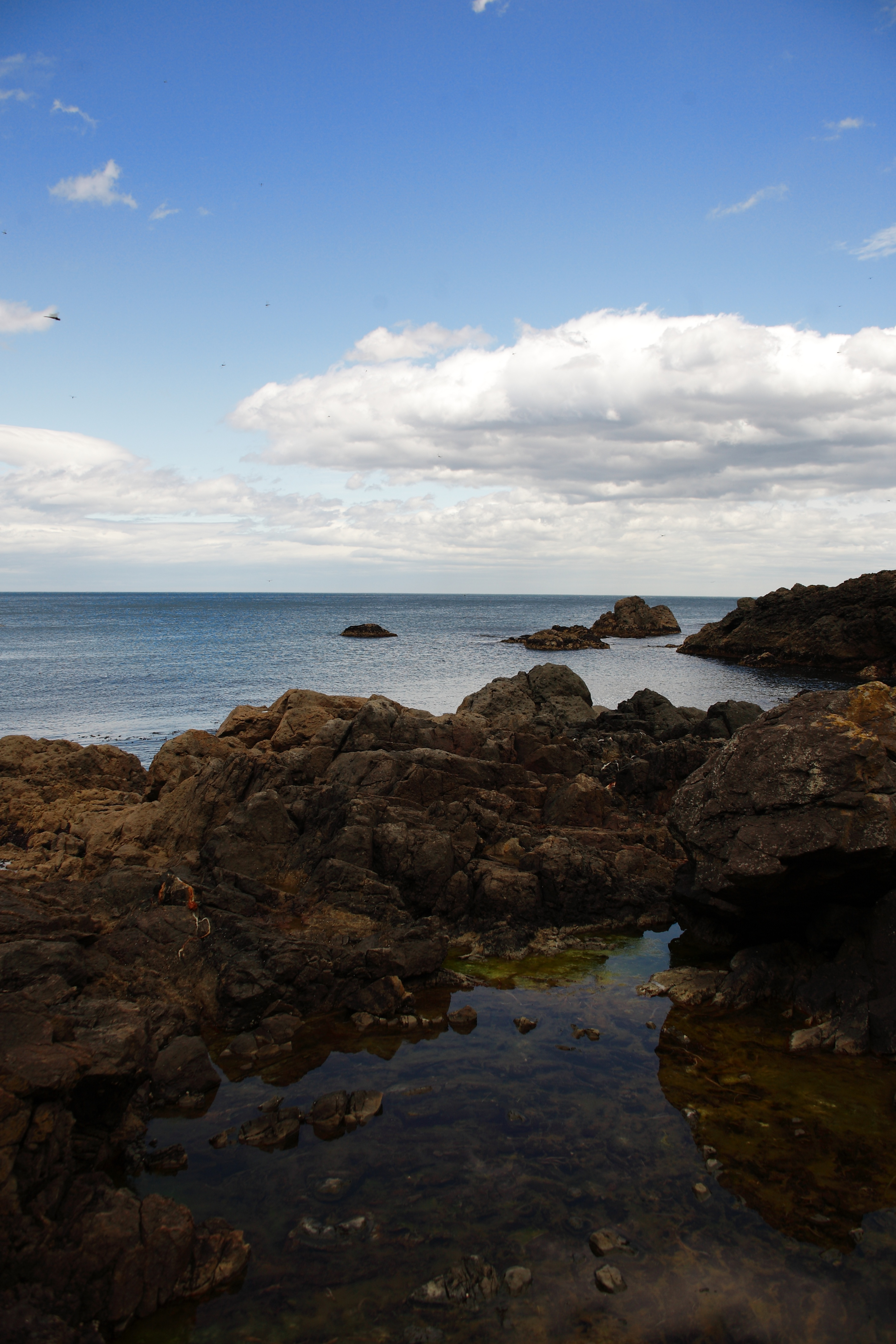 Tanesashi Beach in Hachinohe, Aomori pref., Japan.